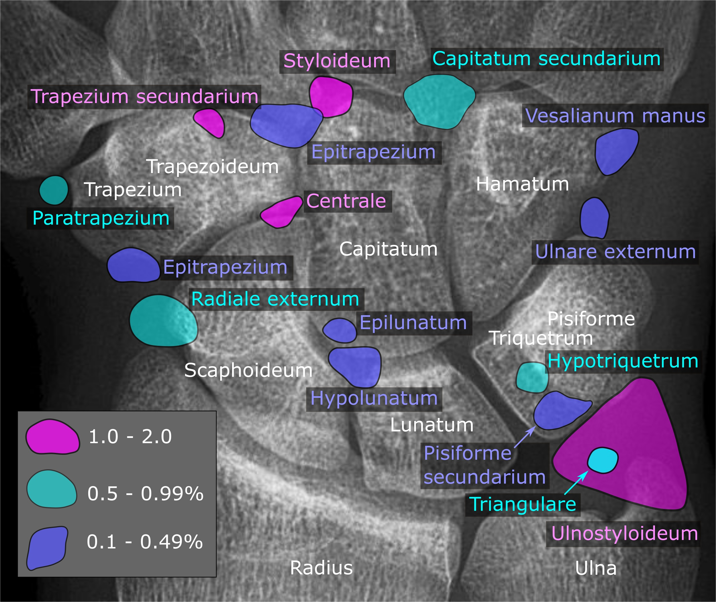 Latin version of X-ray of the left wrist, with accessory bones colored by their prevalences.